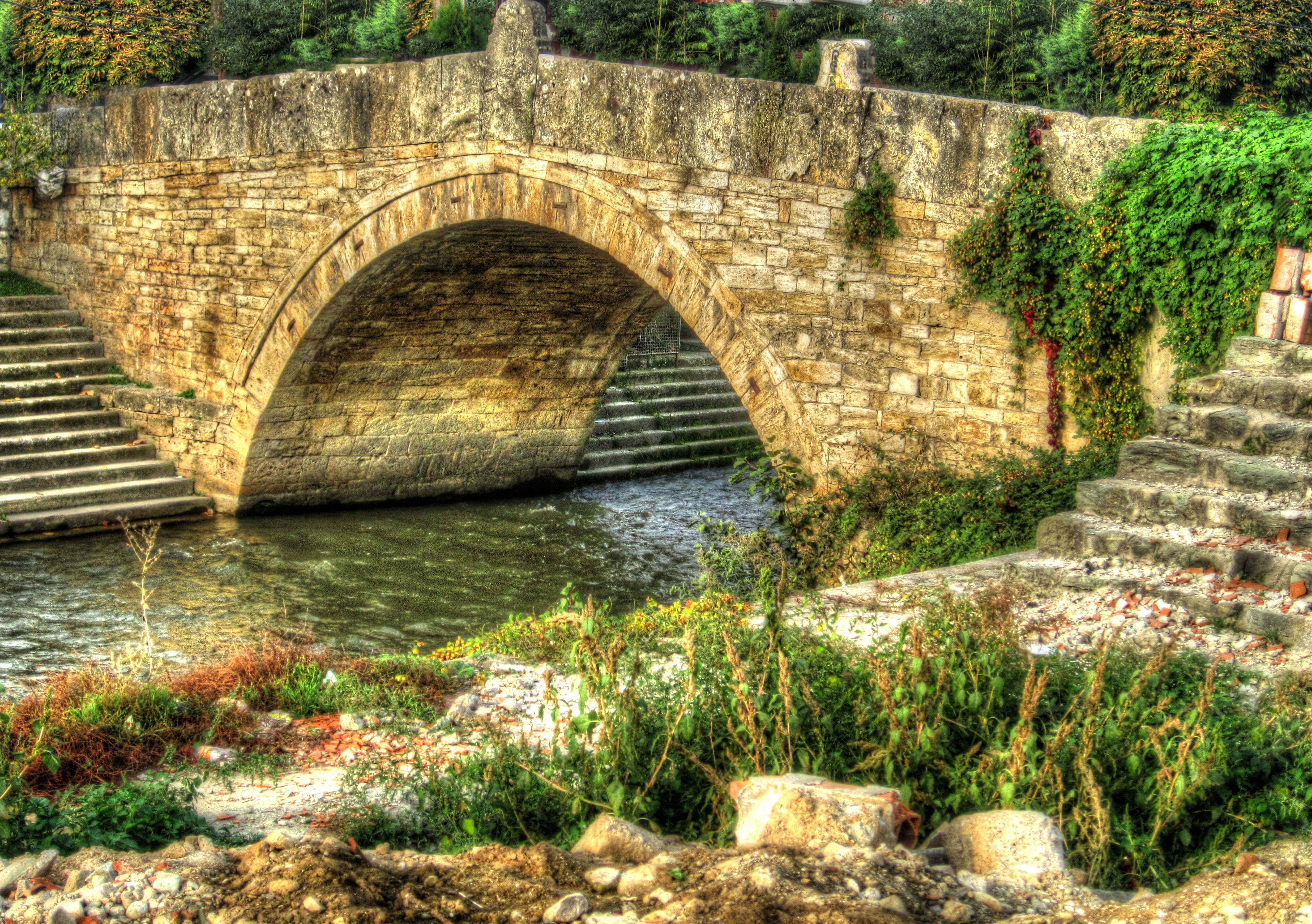 Old stone bridge from the Roman period over Pena River in Tetovo